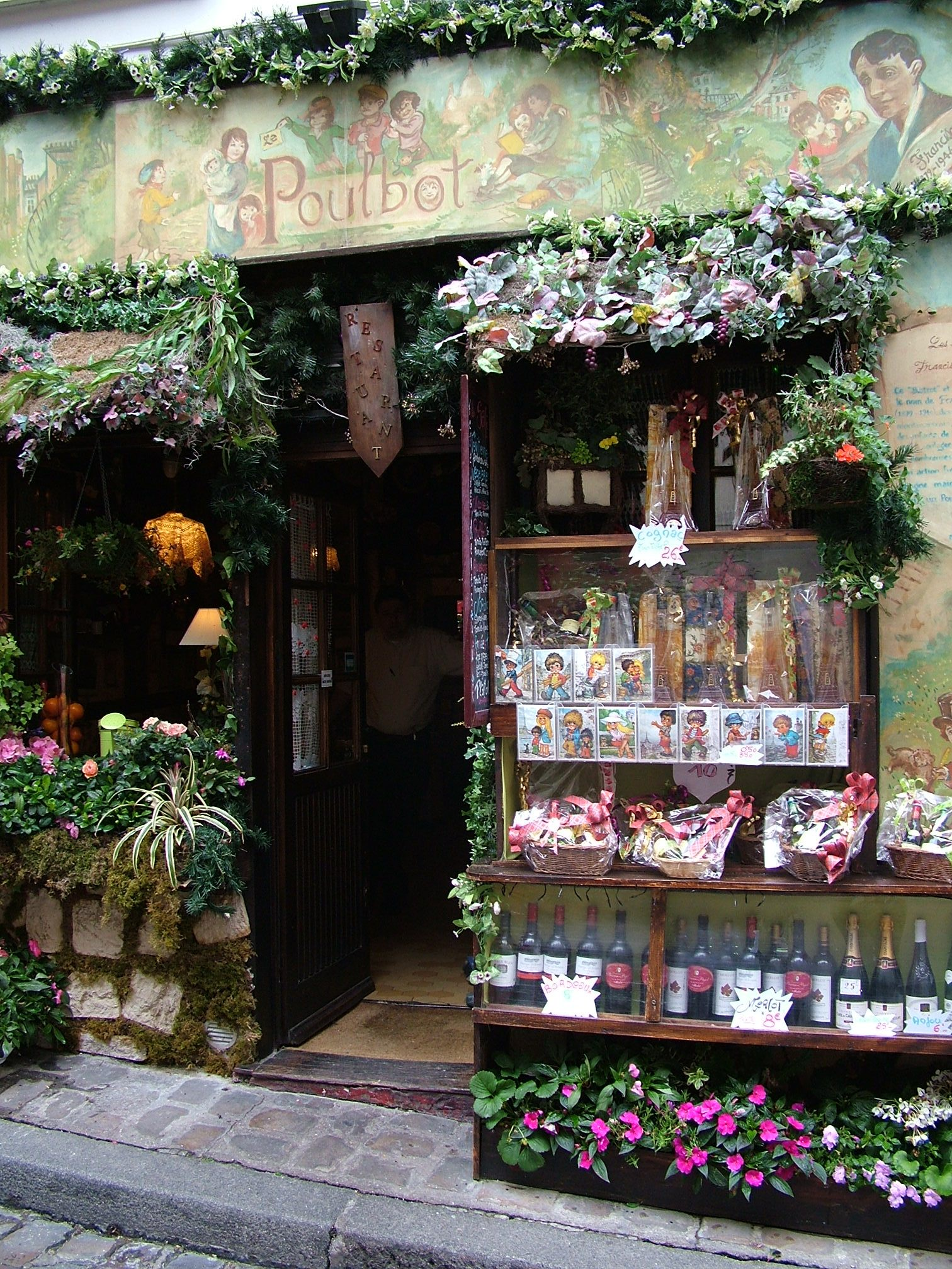 Restaurant "Poulbot", rue Poulbot, Montmartre, Paris Photographed by: Per Palmkvist Knudsen